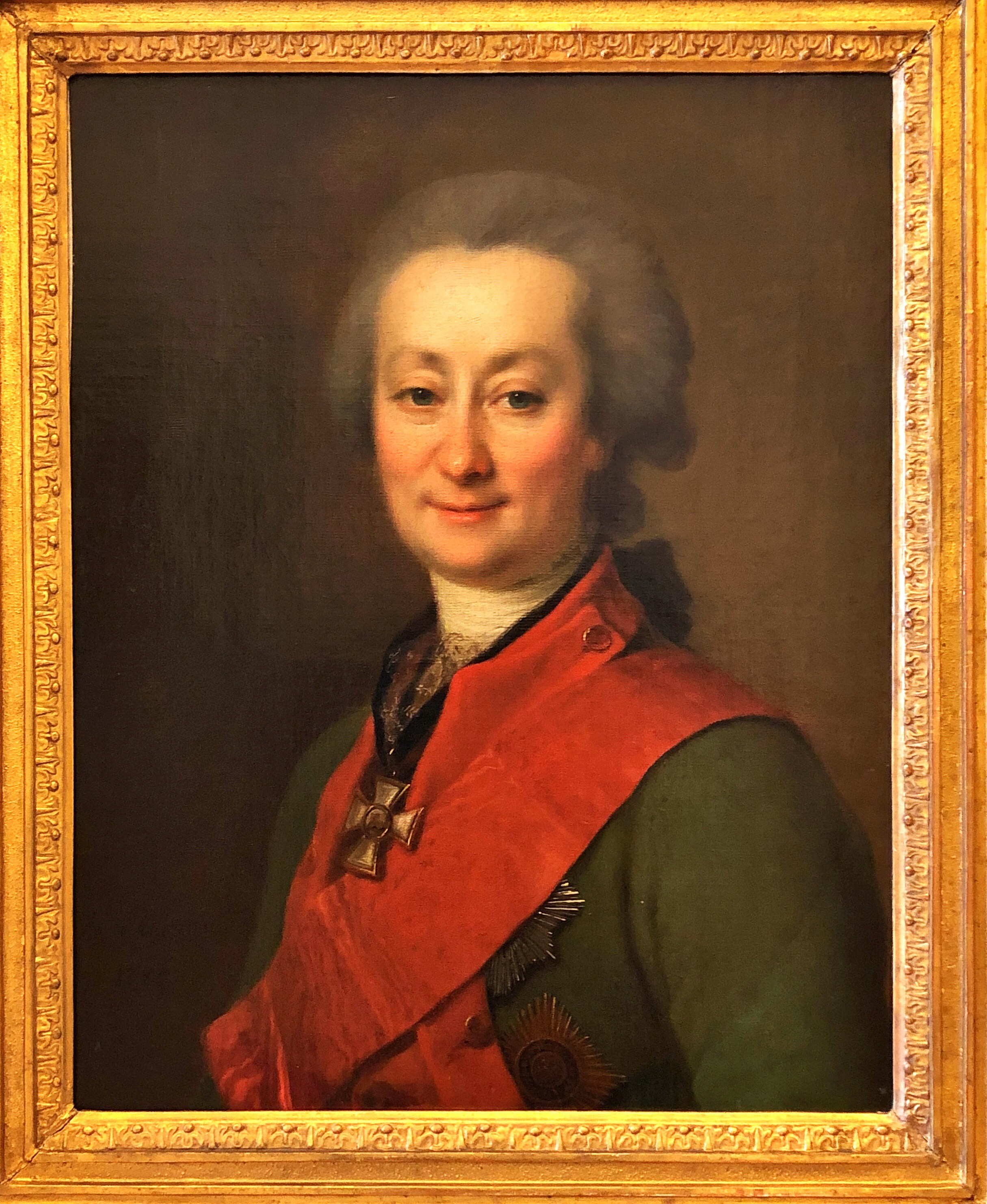 Portrait of General de chef Count Fyodor Grigorievich Orlov (1741-1796)